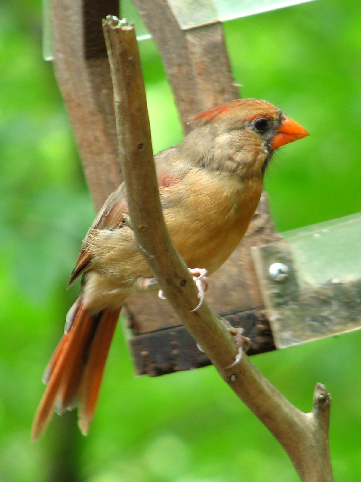 Cardinalis cardinalis, female